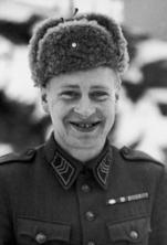 Oiva Tuomela, Knight of the Mannerheim Cross #121